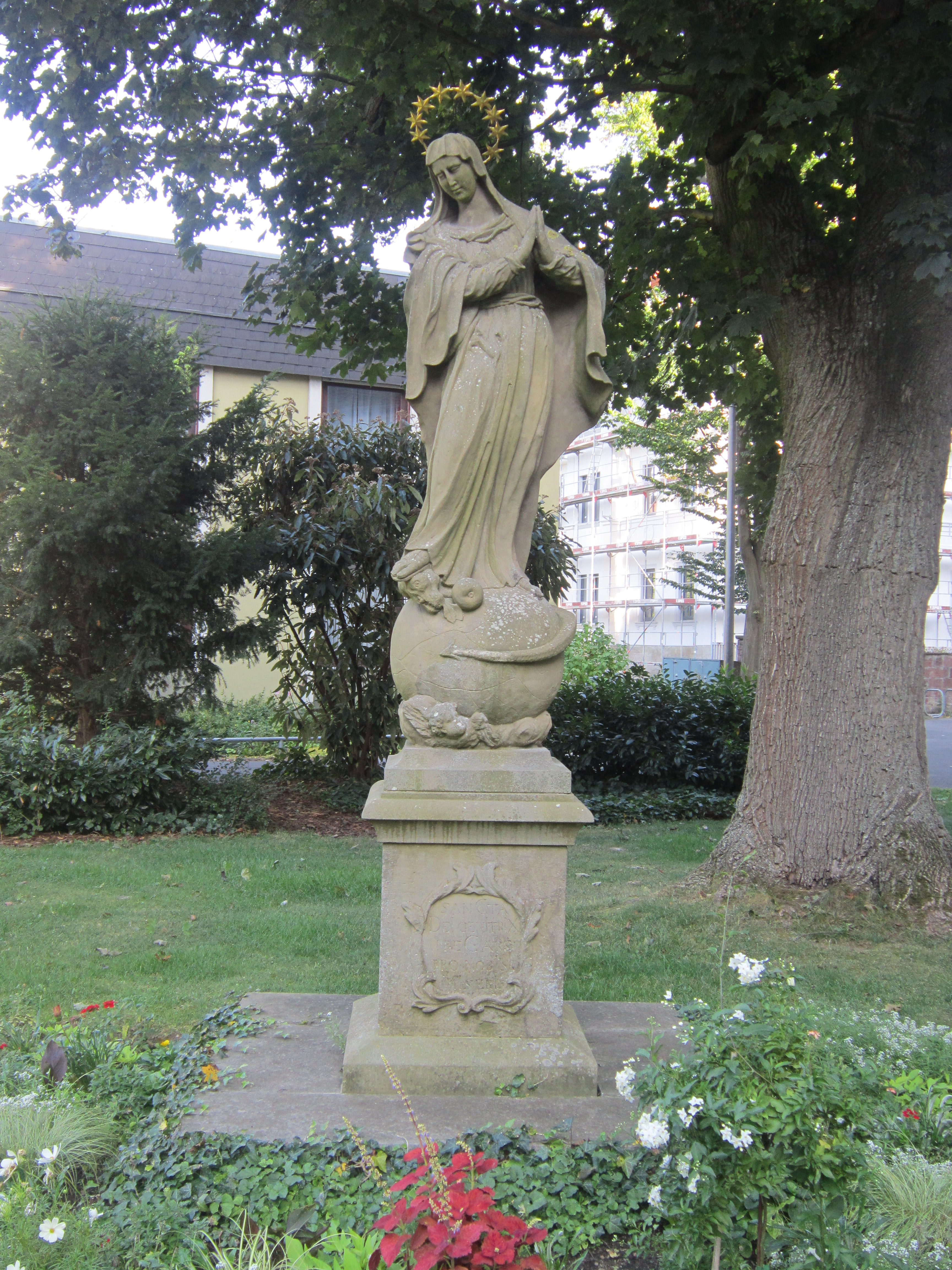 "Maria Immaculata" next to the Herz-Jesu Stadtpfarrkirche in the German spa town of Bad Kissingen in Lower Franconia (Bavaria).